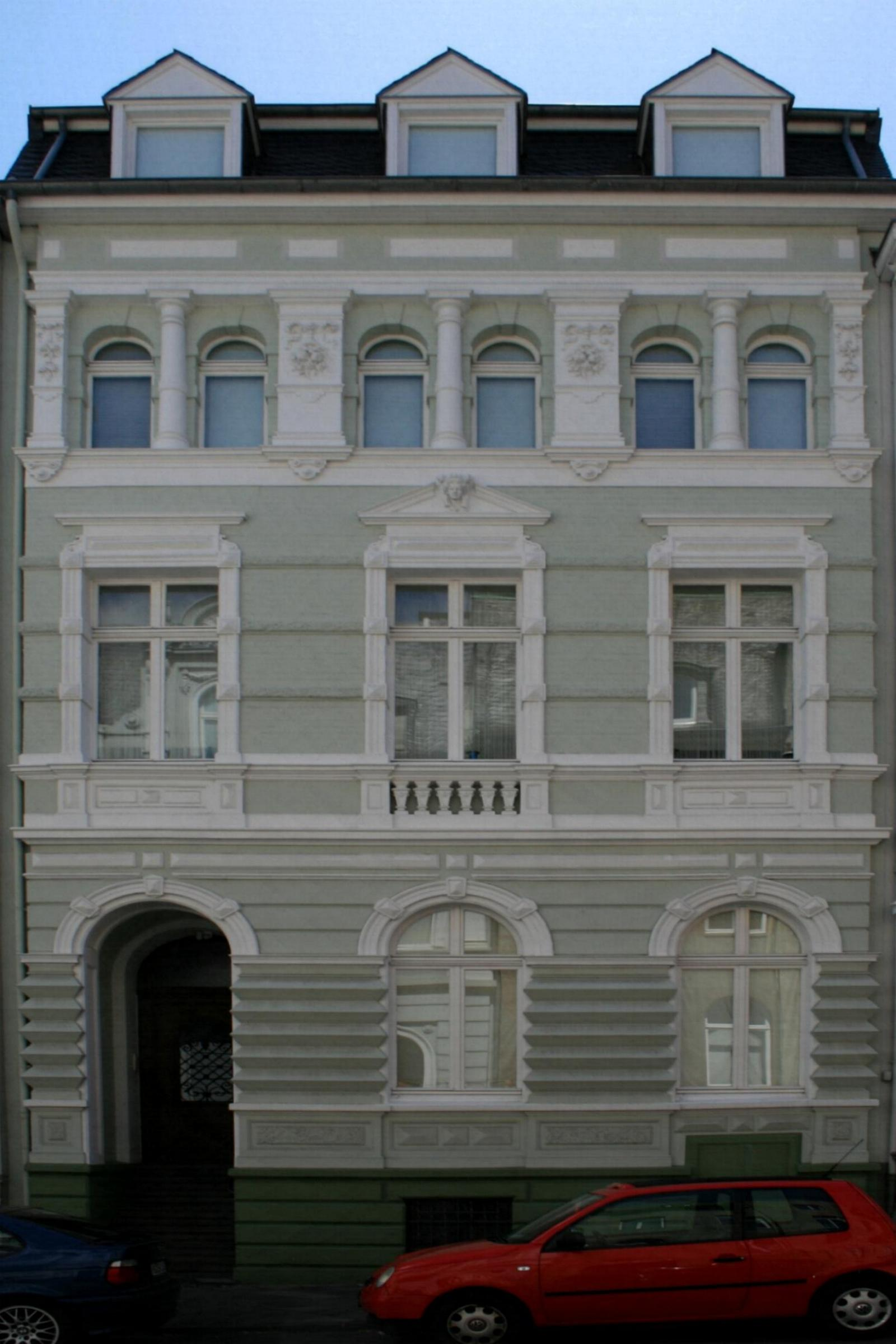 Cultural heritage monument No. K 007 in Mönchengladbach